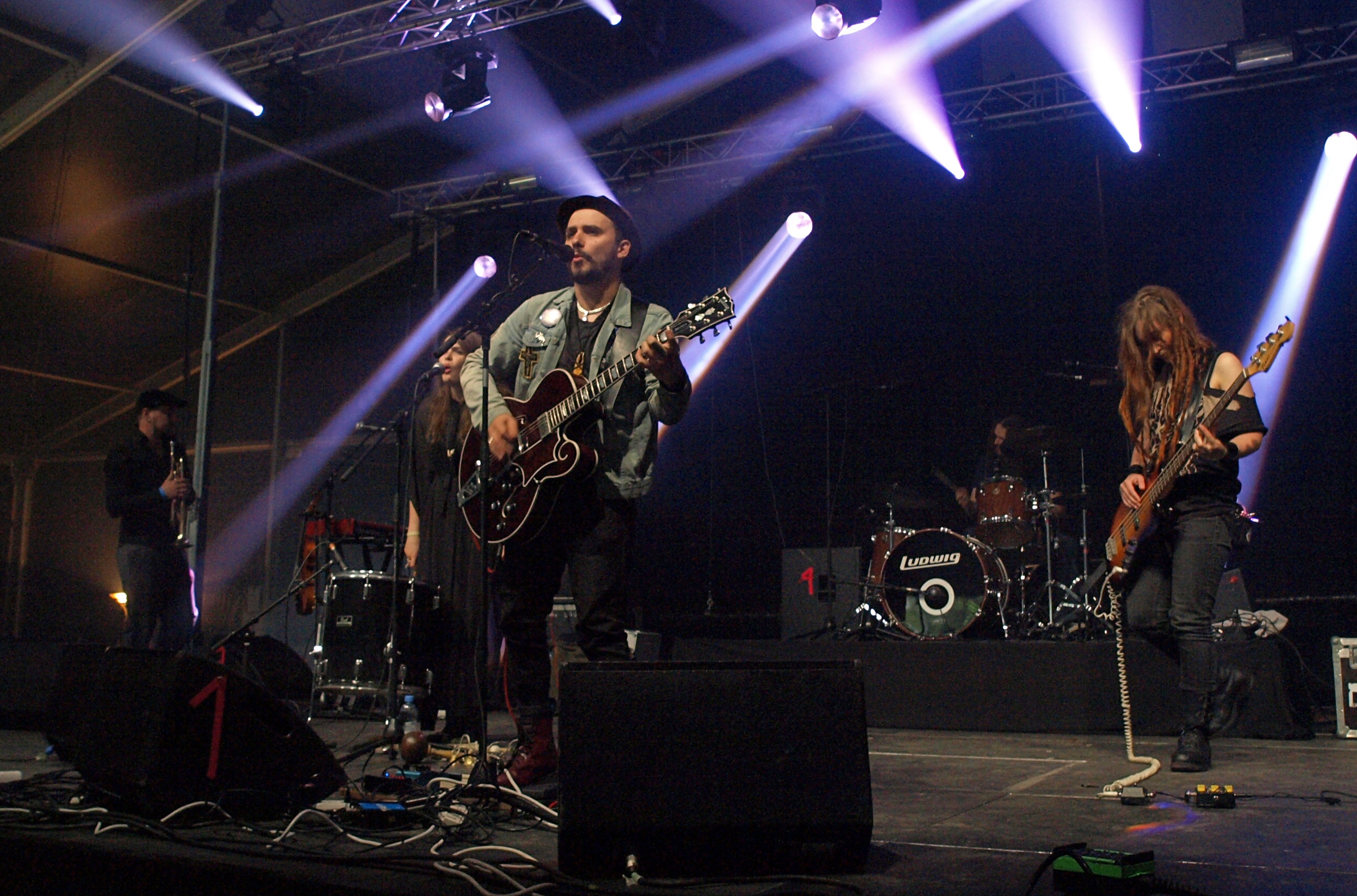 Finnish band Hexvessel at Provinssirock 2013